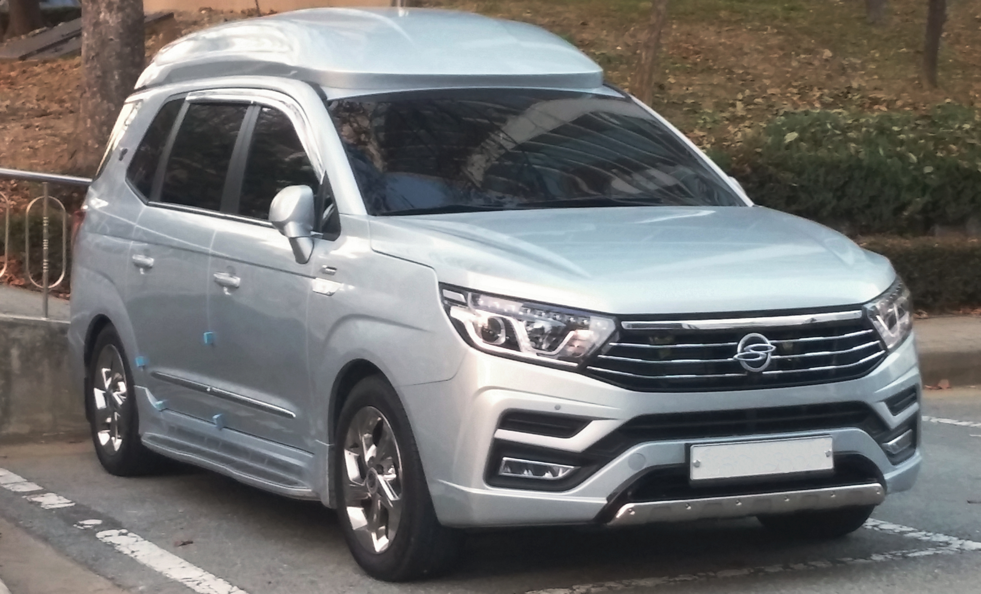 SsangYong Rodius 2018 2nd facelift